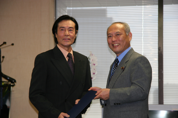 Gō Katō, Member of the National Commission for Promotion of Health Japan 21, Ministry of Health, Labour and Welfare, received the Letter of Appointment as the Goodwill Ambassador for Health of the Ministry of Health, Labour and Welfare from Yōichi Masuzoe, Minister of Health, Labour and Welfare, at the Central Government Building No.5 in Chiyoda Ward, Tōkyō Metropolis on November, 2007.